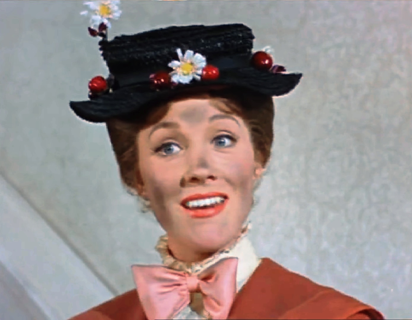 Screenshot of Julie Andrews from the trailer for the film Mary Poppins